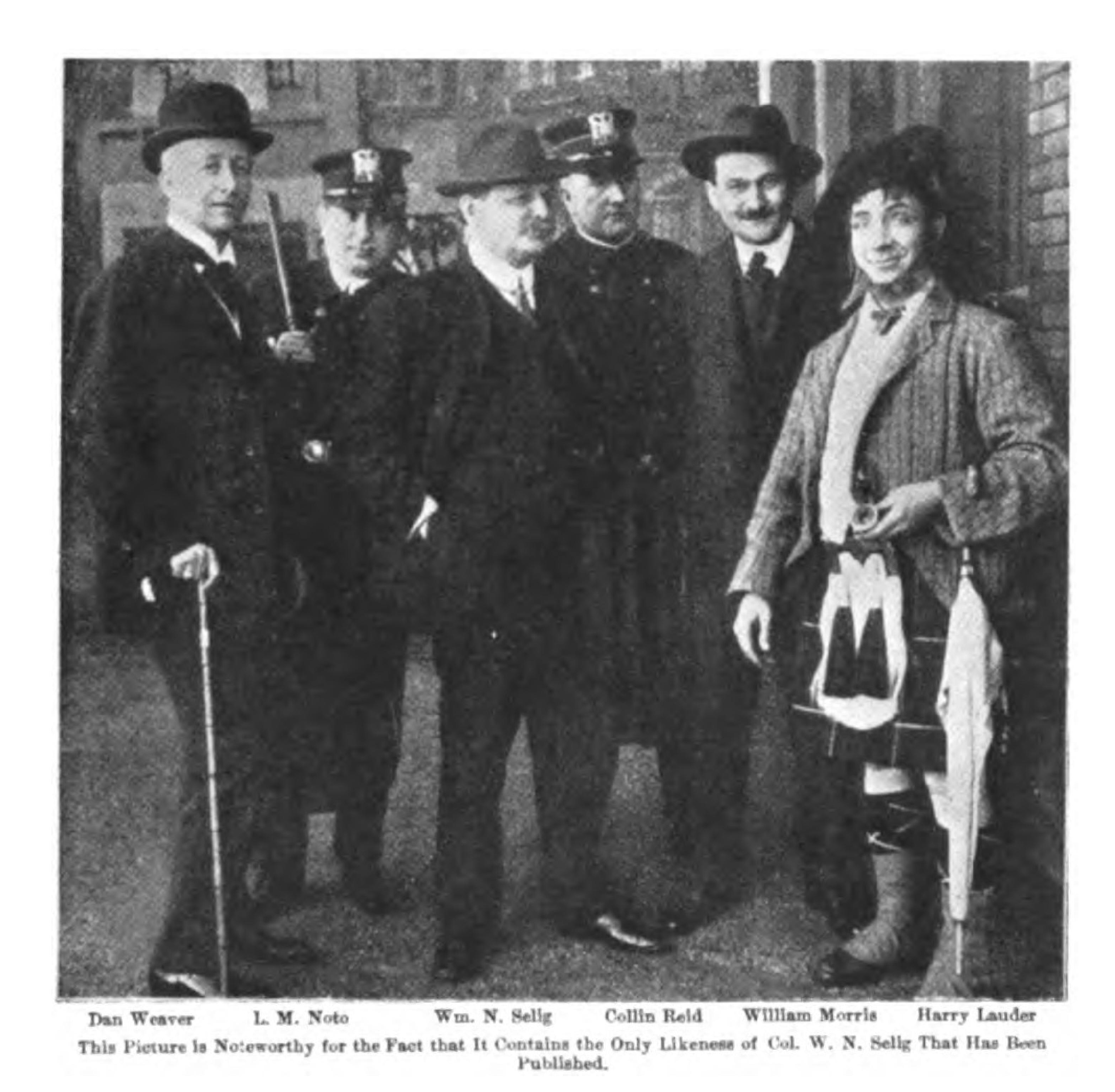 The Selig Polyscope Company was an American motion picture company founded in 1896 by William Selig in Chicago, Illinois.